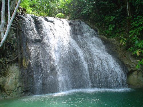 Warsa waterfall, Biak Island, West Papua